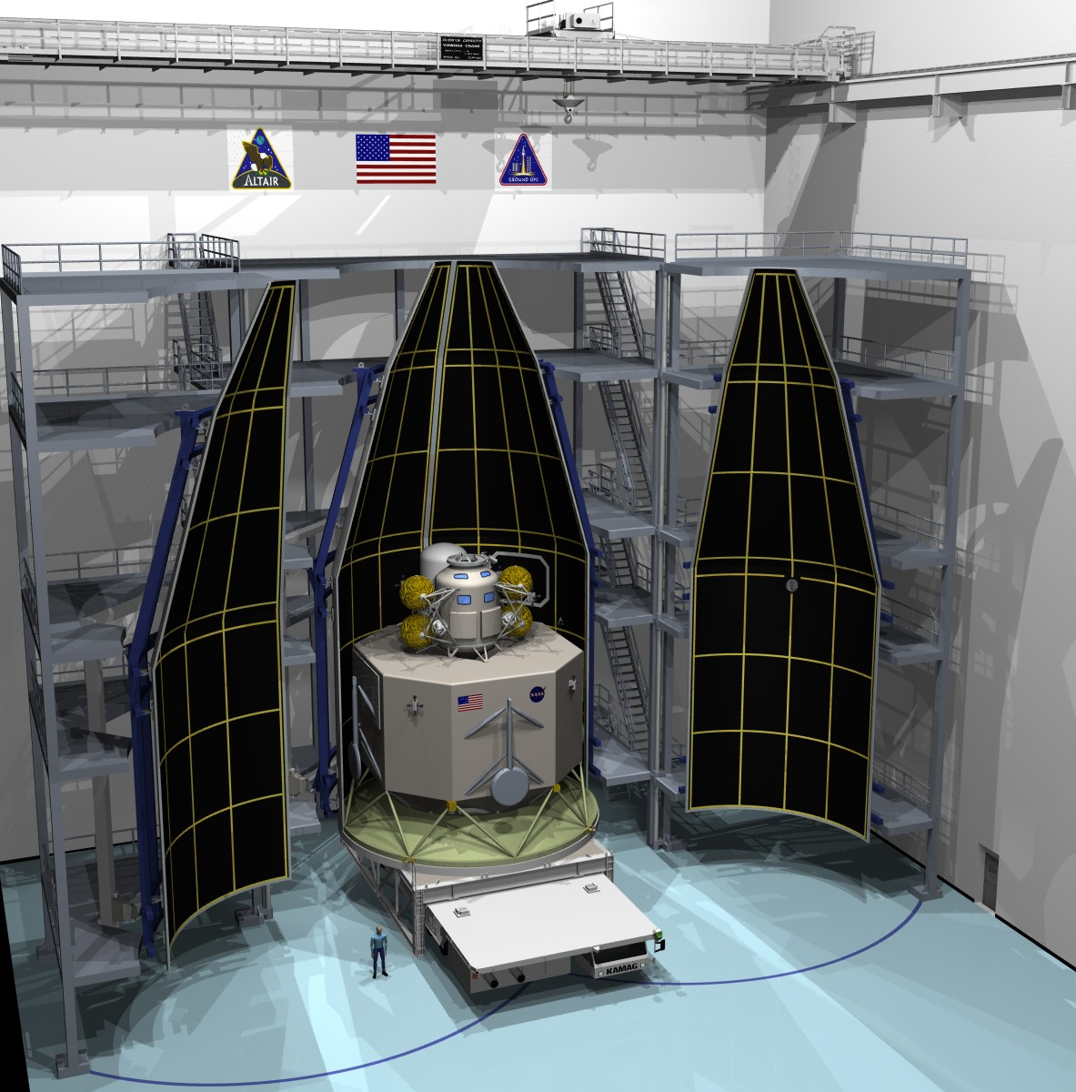 Concept image of the Altair lunar lander undergoing ground processing.